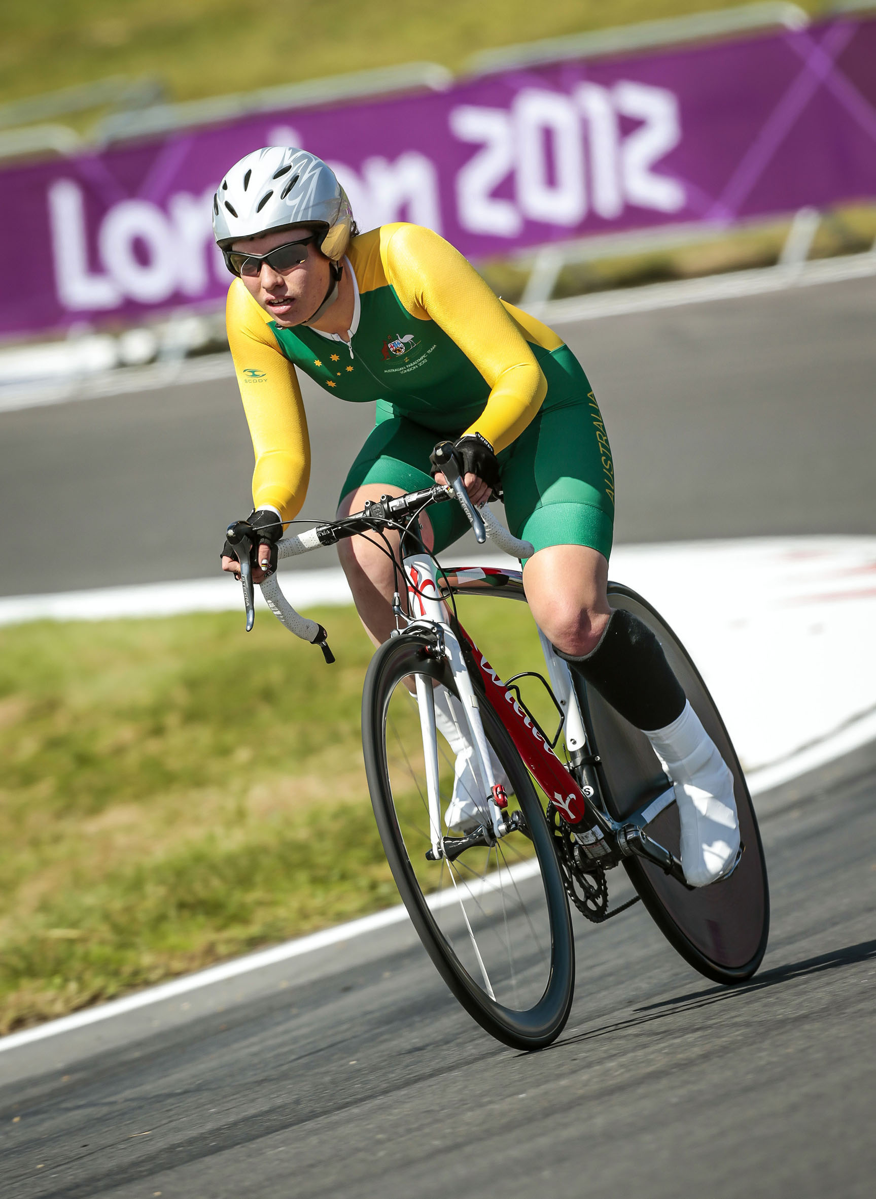 Photograph of Australian Paralympic team member Simone Kennedy at the 2012 Summer Paralympic Games in London